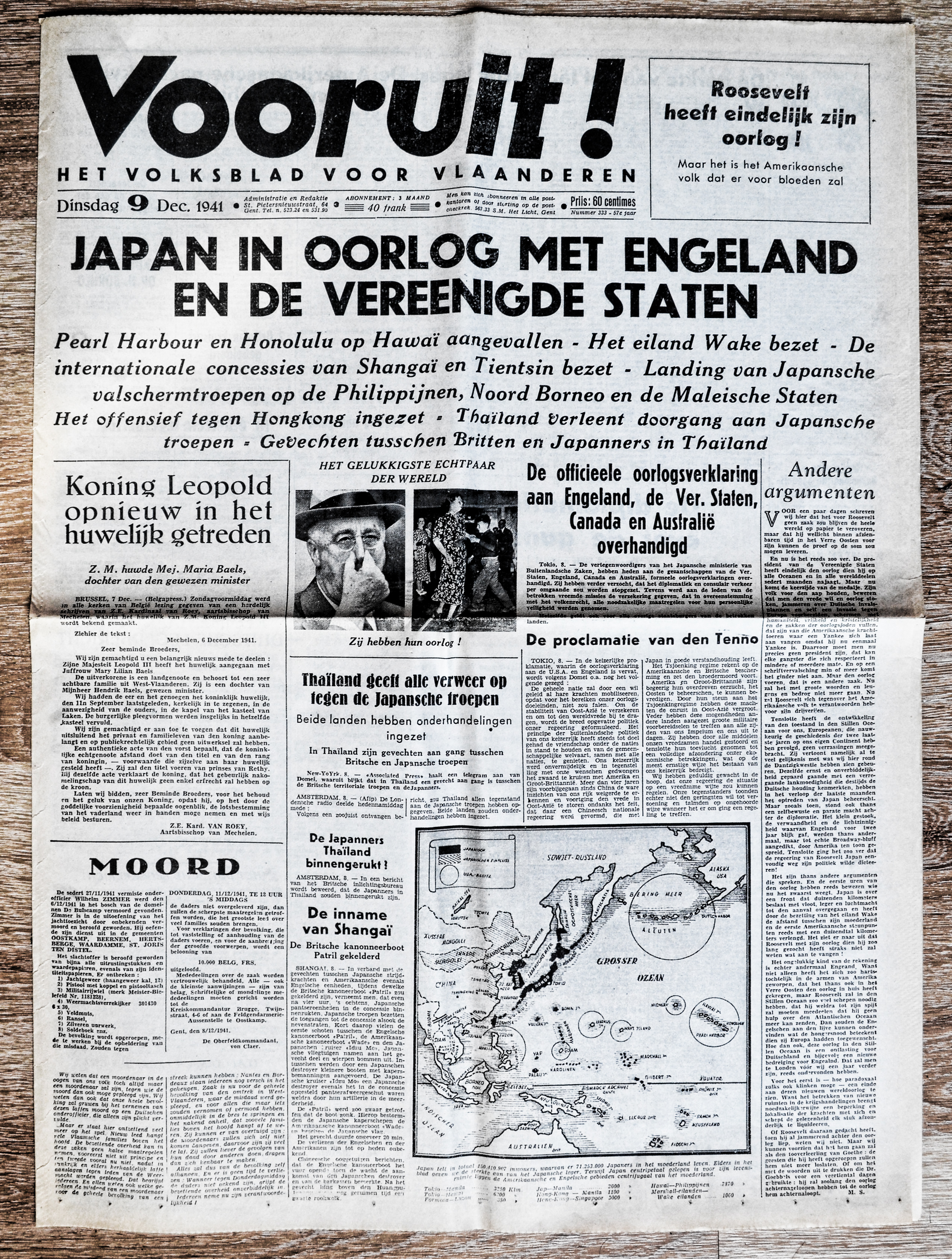 Frontpage Flemish Socialist newspaper "Vooruit" December 19 1941. With headline "Japan At war with England and the United States". dedicated to the Japanese attack on Pearl Harbor.